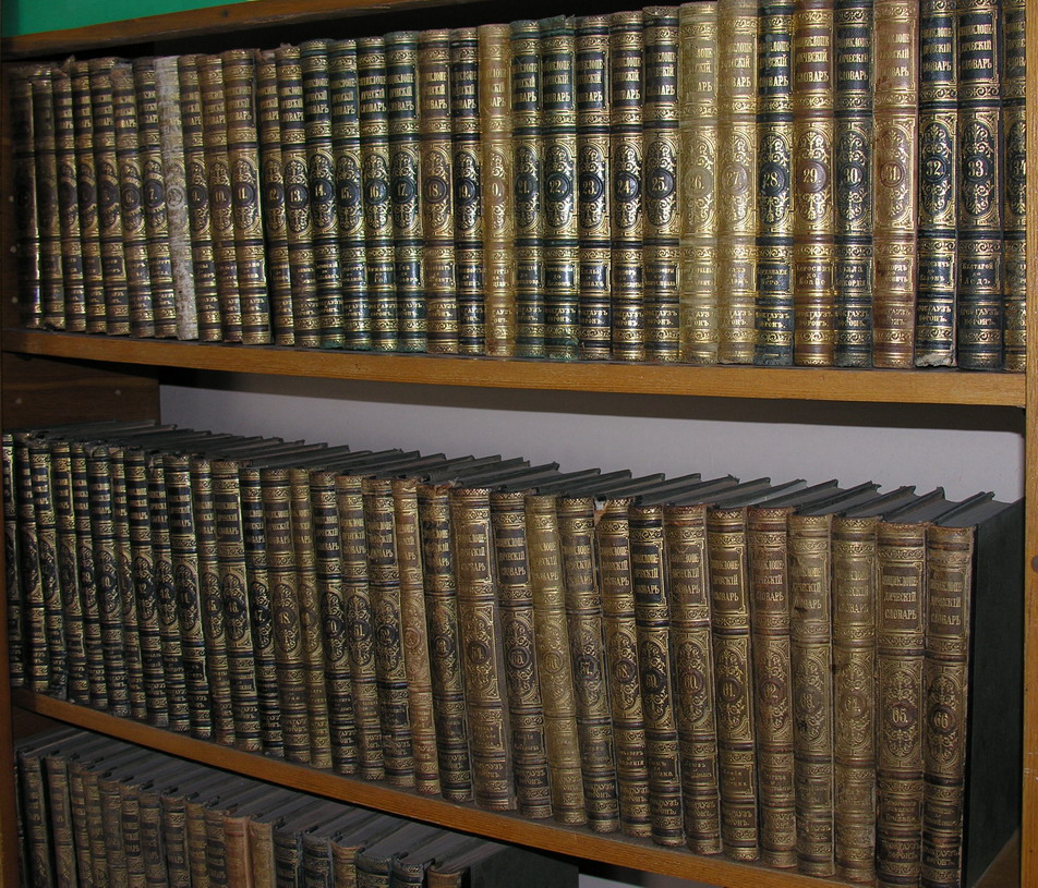 Brockhaus and Efron Encyclopedic Dictionary